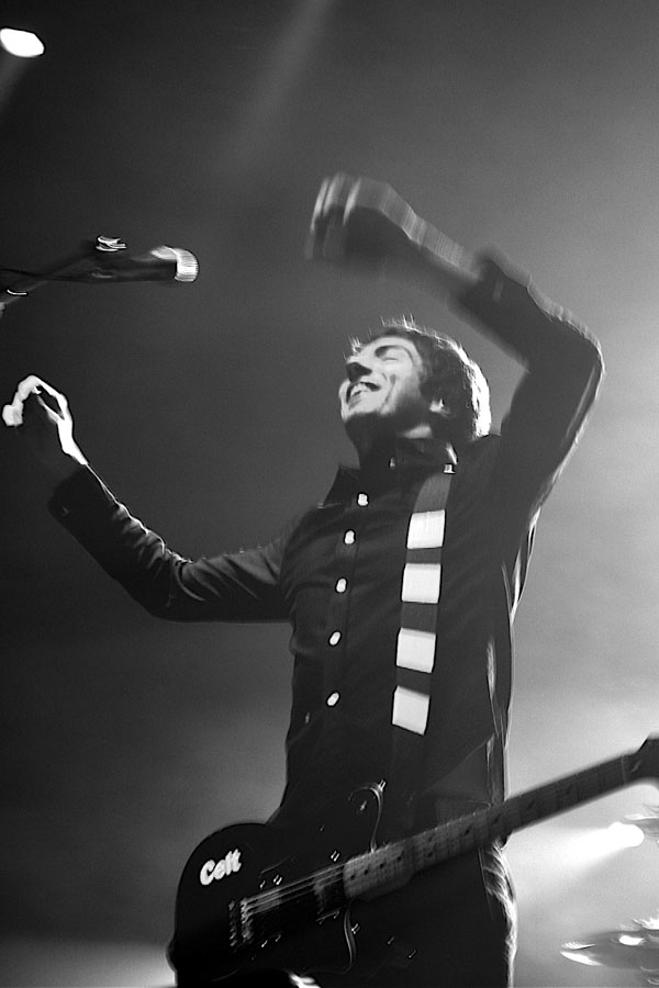 Gary Lightbody performing with Snow Patrol at the SECC, Glasgow, Scotland on 16 December 2006.